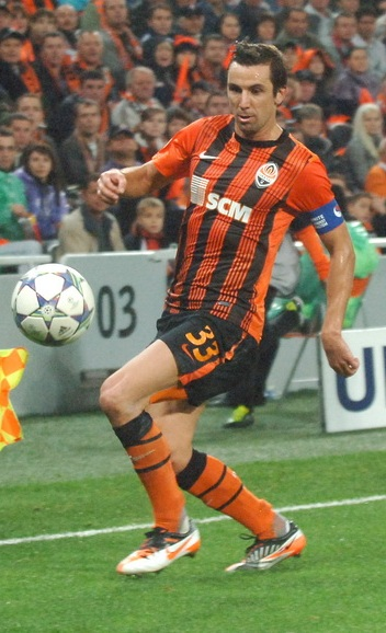 Darijo Srna is a Croatian Defender